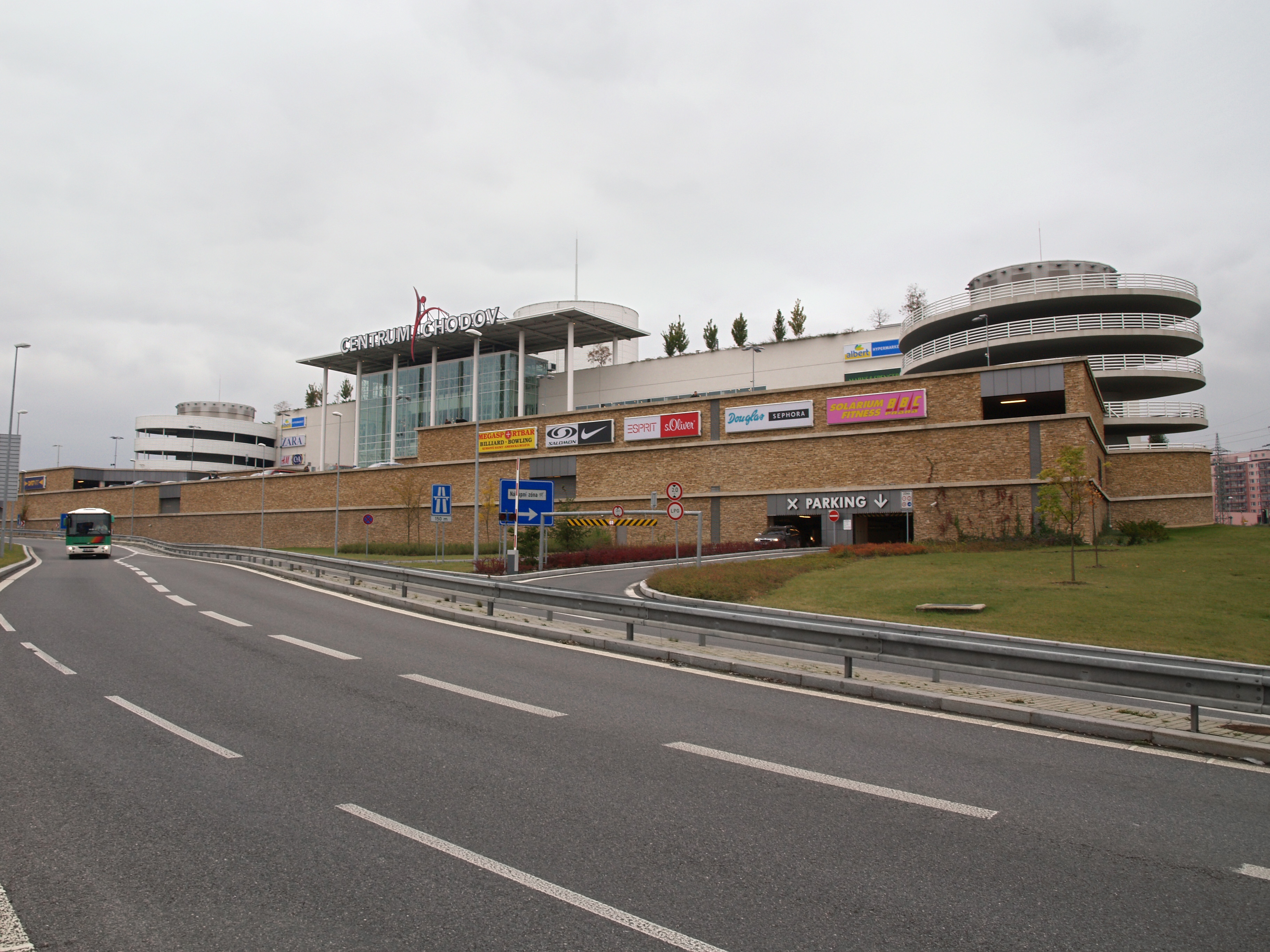 Centrum Chodov shopping centre